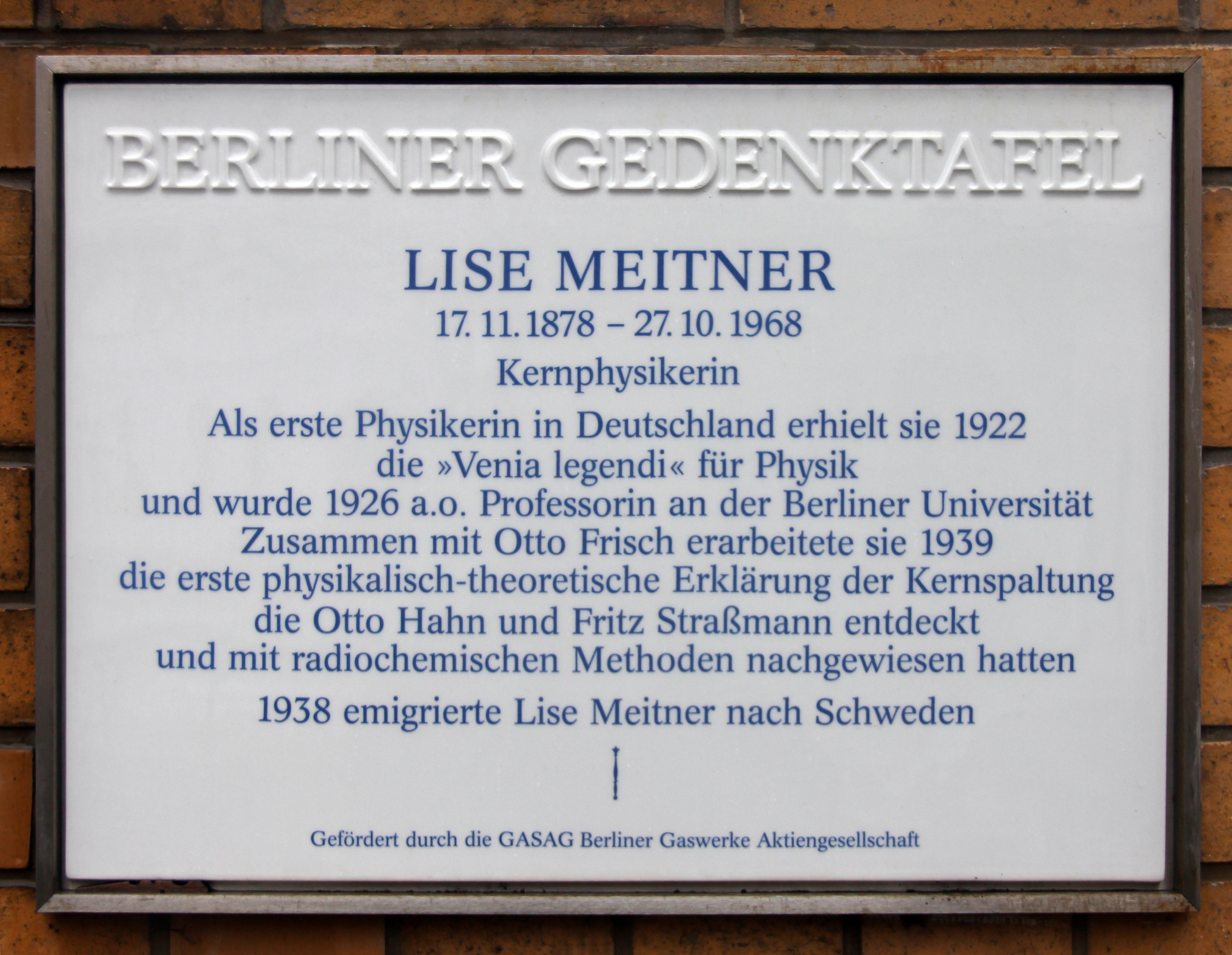 Berlin memorial plaque, Lise Meitner, Hessische Straße 1, Berlin-Mitte, Germany